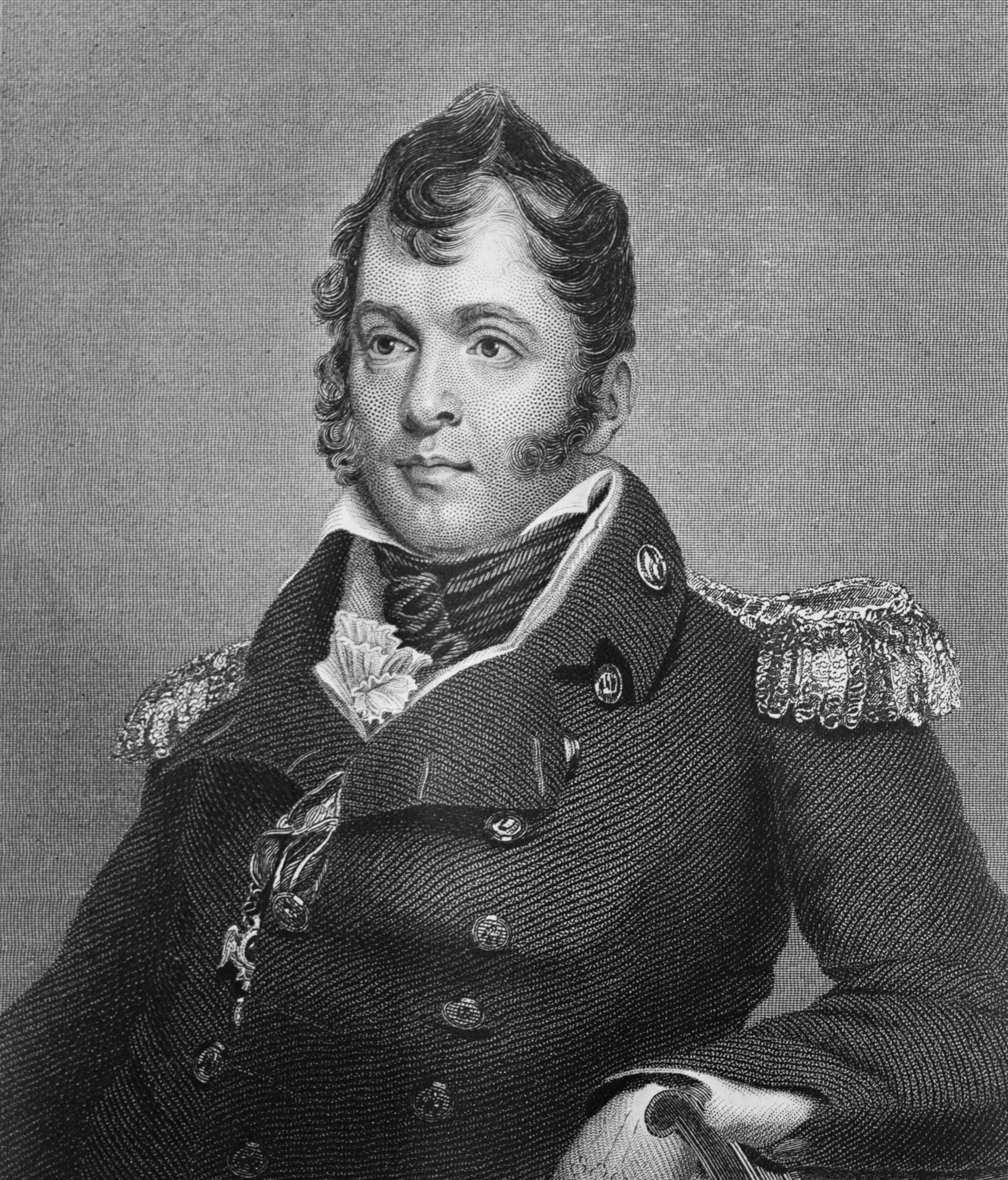 OLIVER HAZARD PERRY, COMMODORE, U.S.N. ENGRAVED PORTRAIT